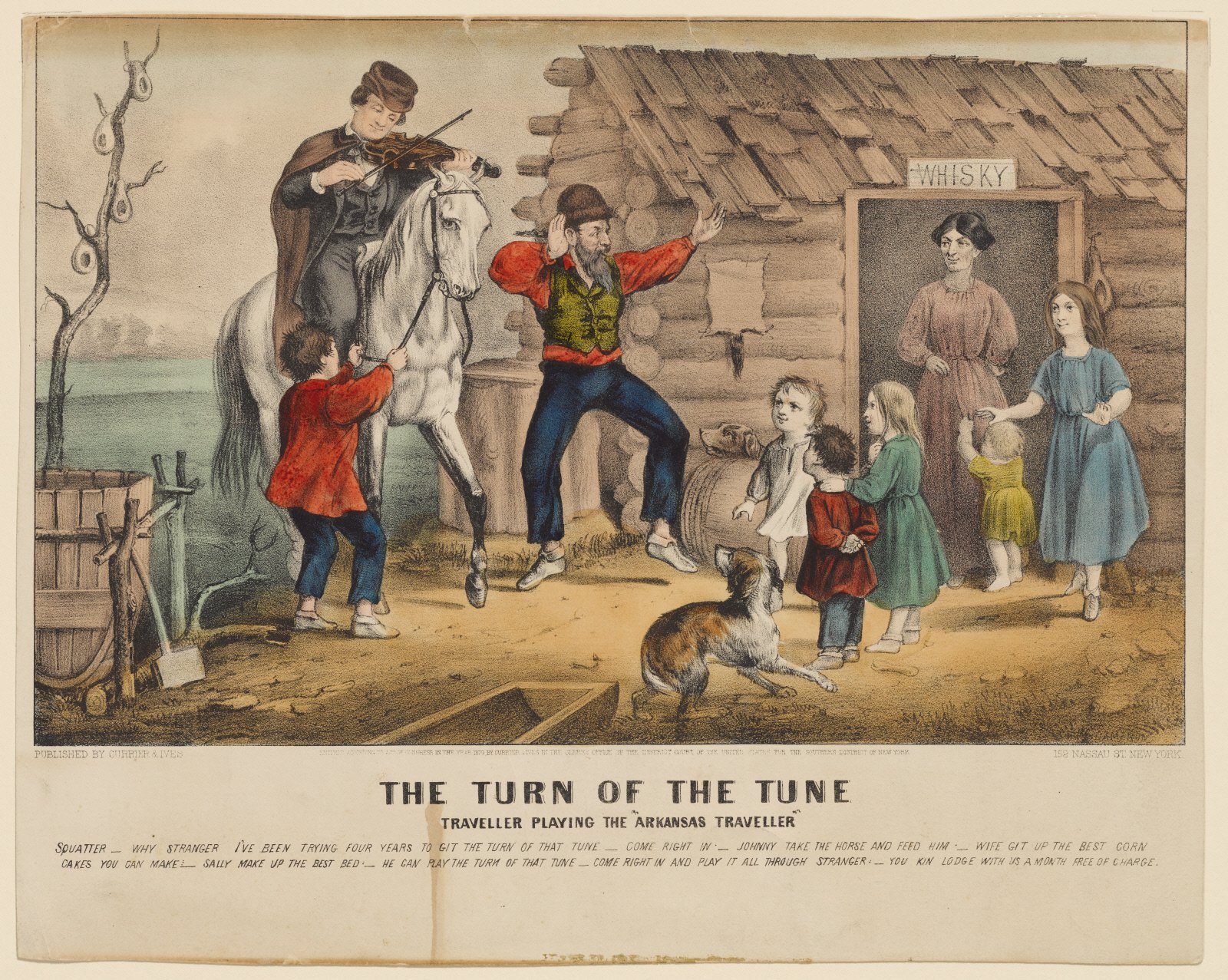 The Turn of the Tune. Traveller Playing the Arkansas Traveller. This lithography was published by Currier and Ives in 1870. It is possible that it was made after a lost second painting by Edward Washburn (1830-1861), but it can be a free creation by Currier and Ives staff as well, just to depict the second part of the Arkansas Traveler story.